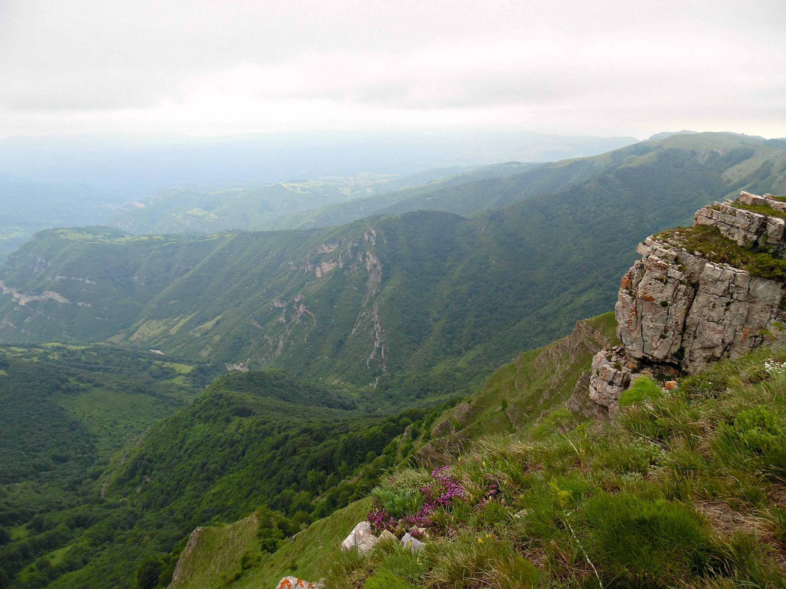 Iskar Gorge, Vrachanski Balkan Reserve, Bulgaria